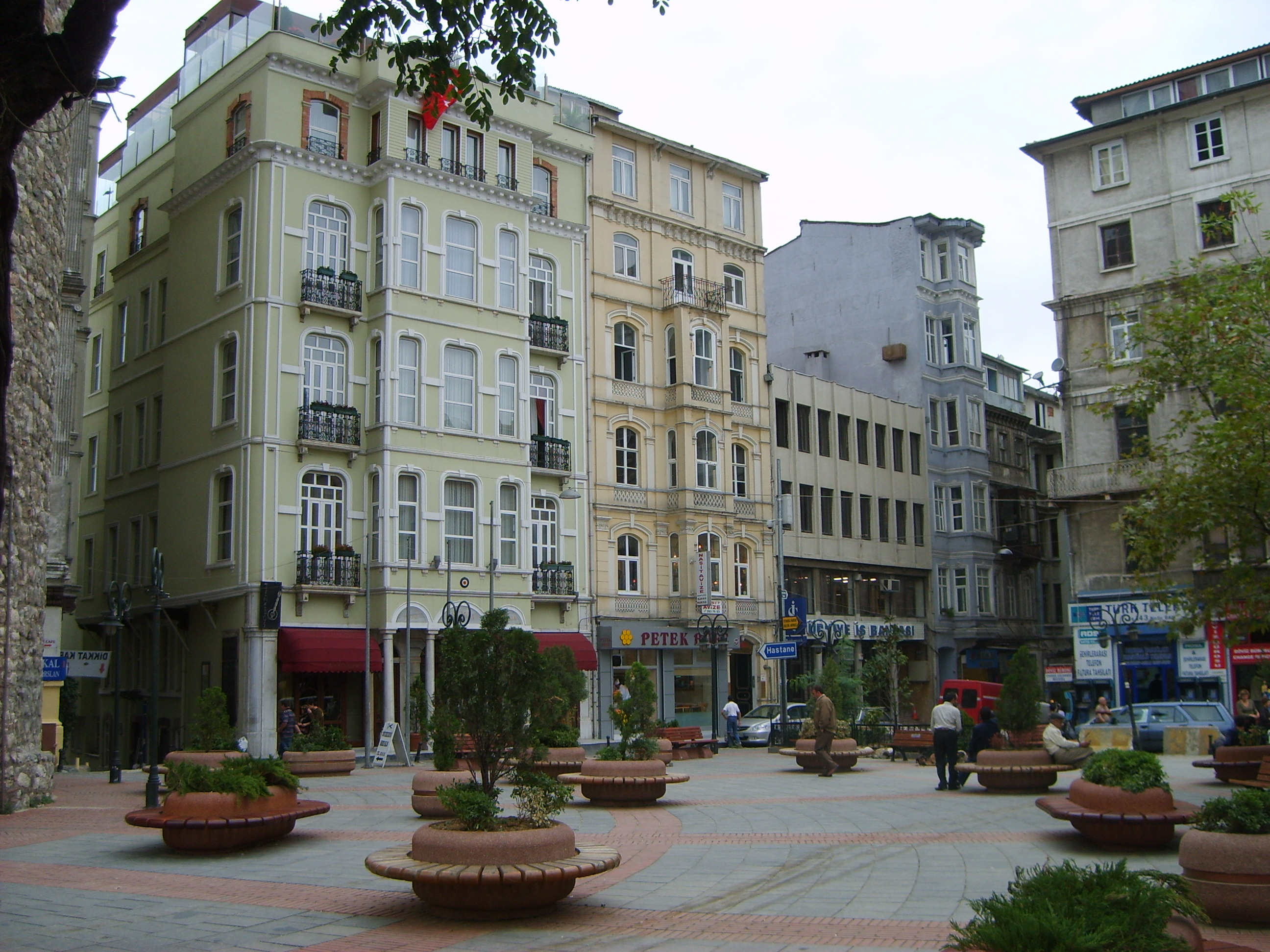 Surroundings of Galata Tower